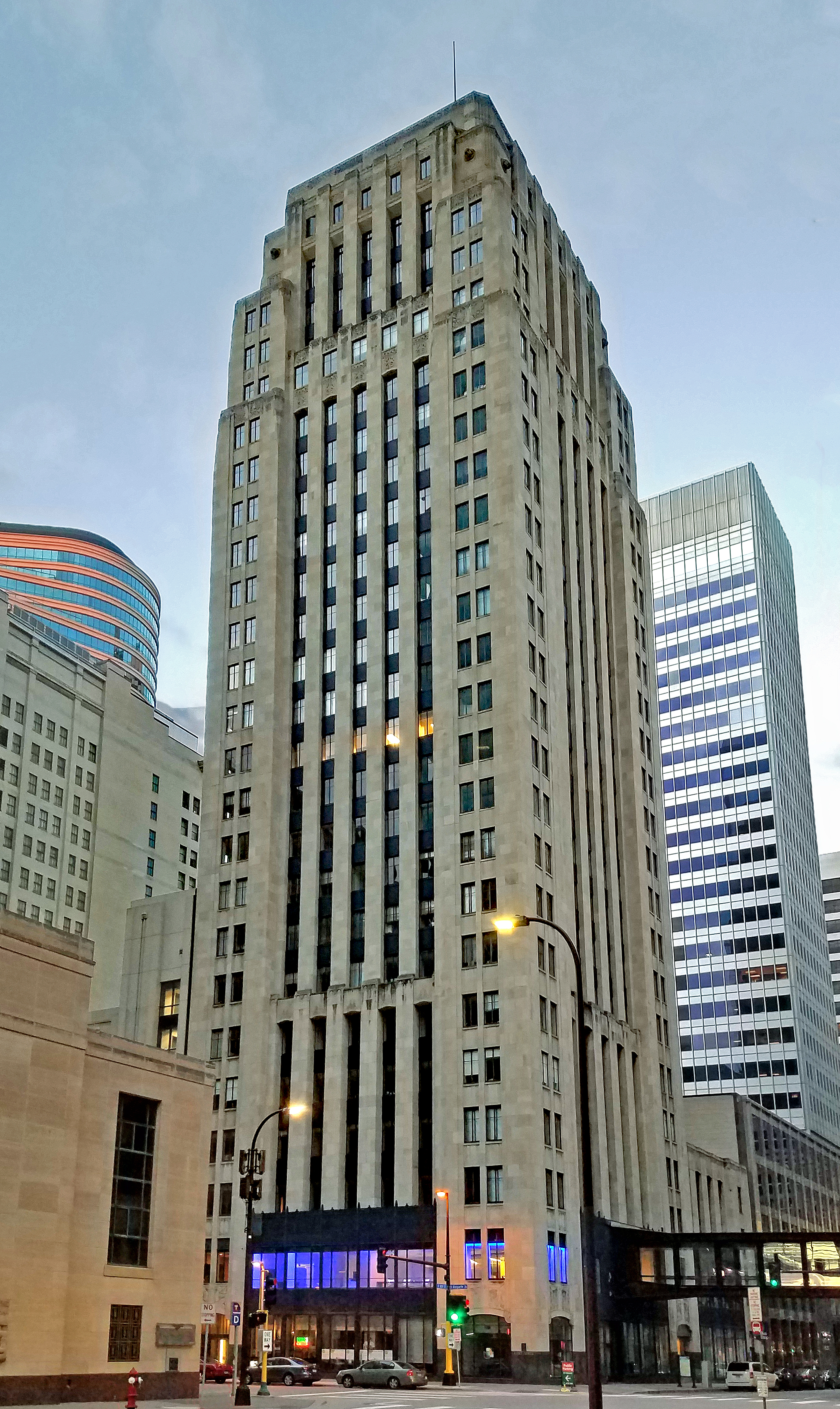 Rand Tower, 527 Marquette Ave, Minneapolis, Minnesota, USA. Viewed from the west.